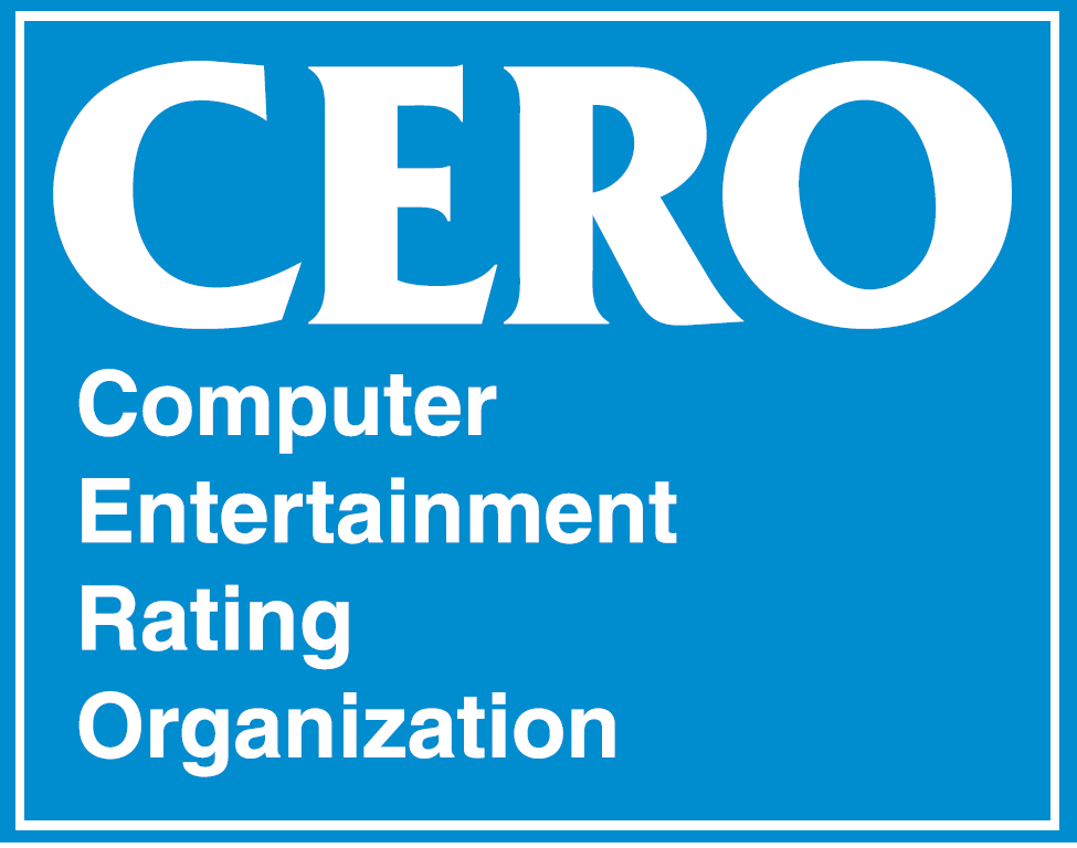 CERO's logo